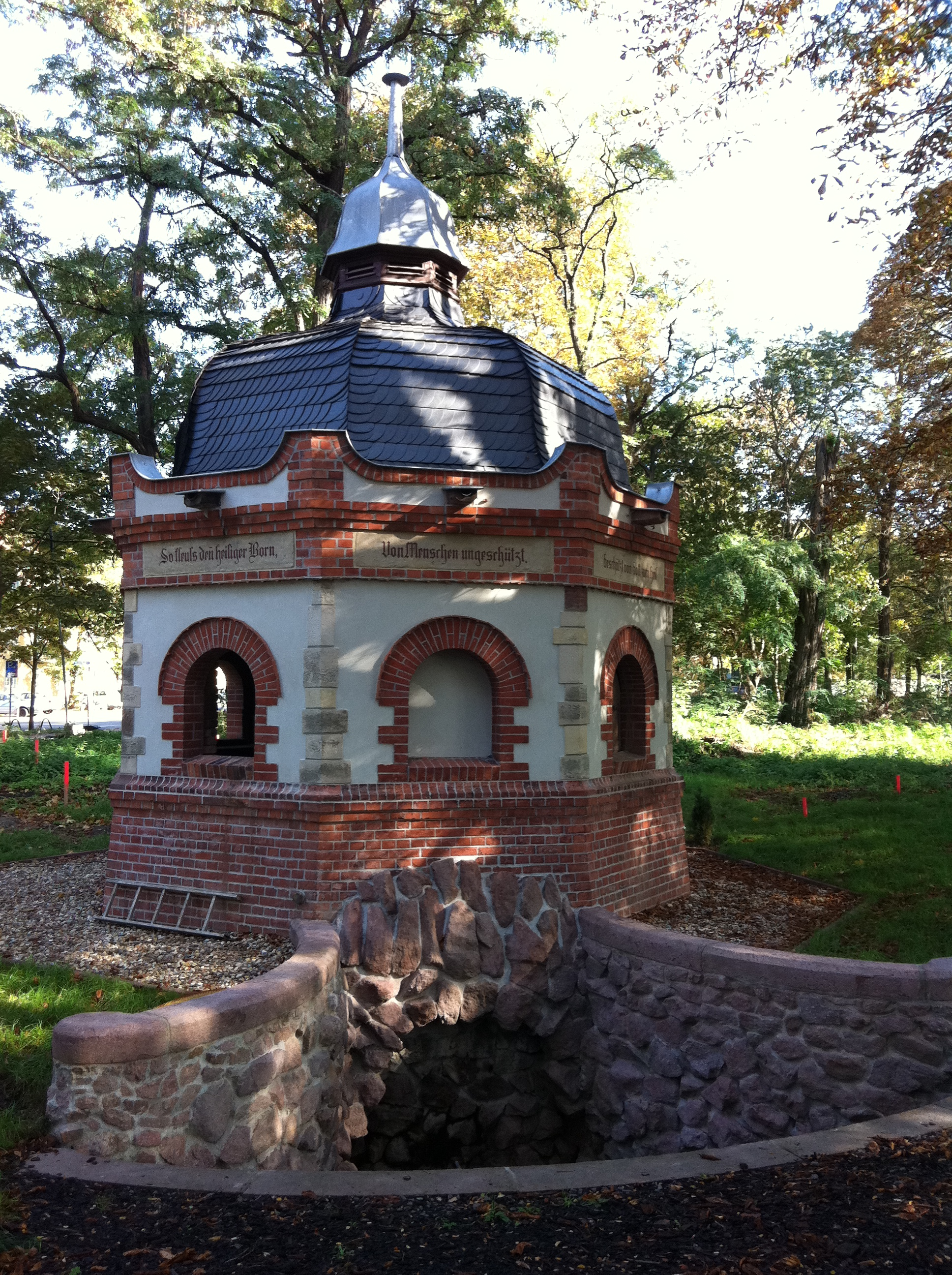 Brunnenhaus des Gesundbrunnen in Halle (Saale)